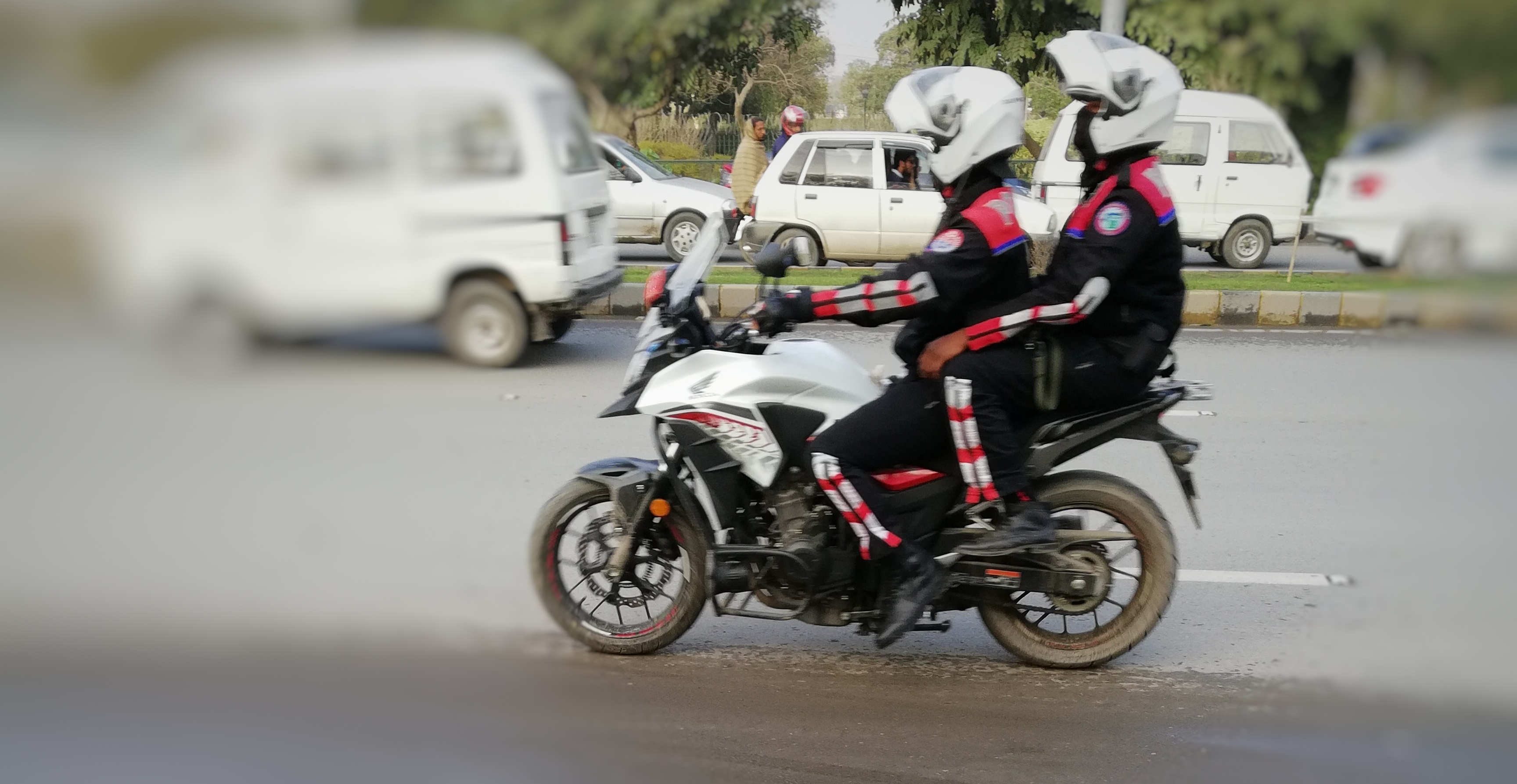 Dolphin patrollers